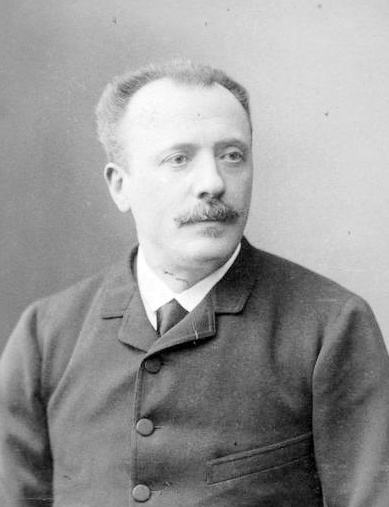 French politician Albert de Mun (1841-1914).